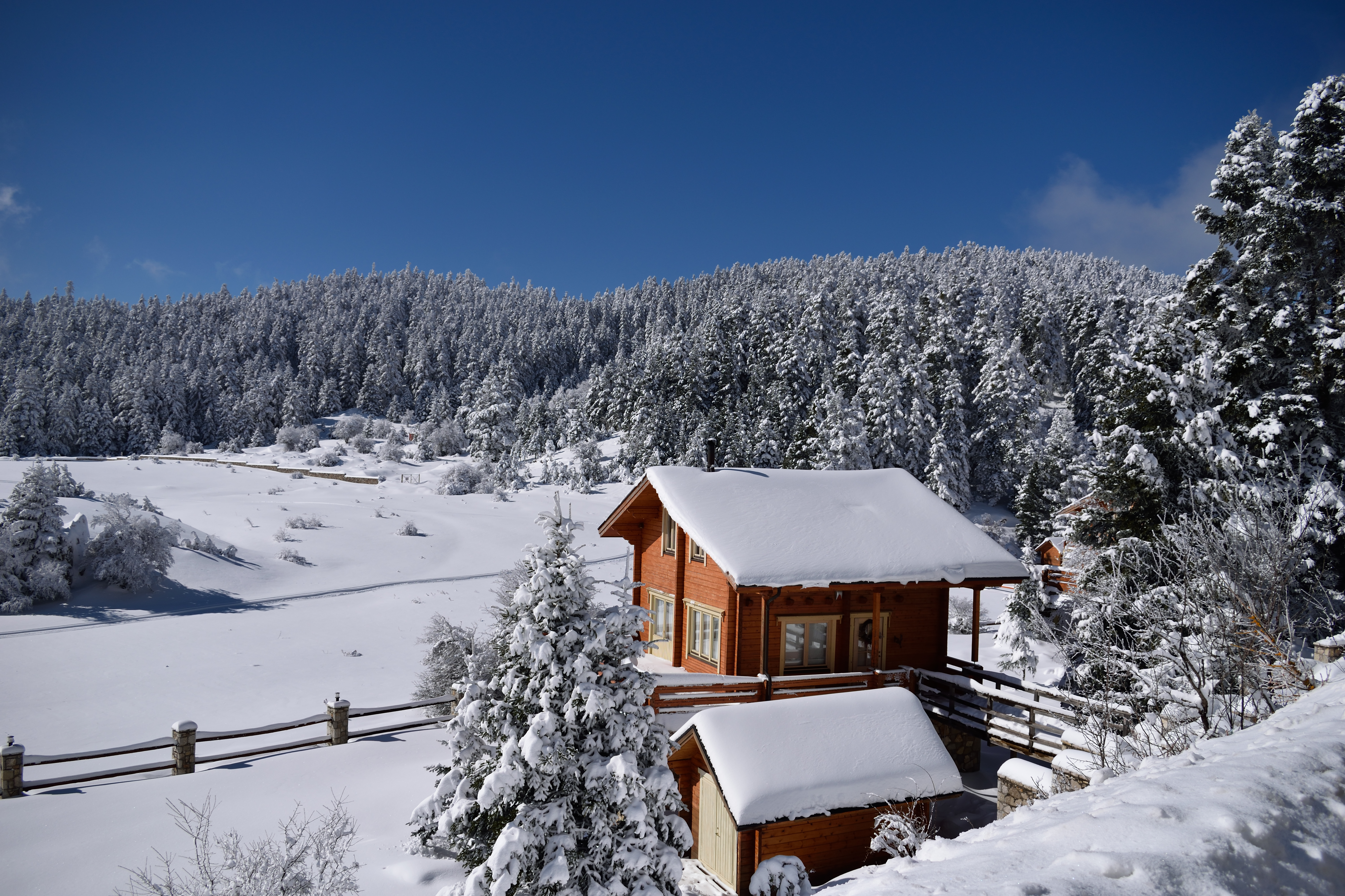 Snow landscape on Mount Parnassus This is a photography of Natura 2000 protected area with ID GR2410002